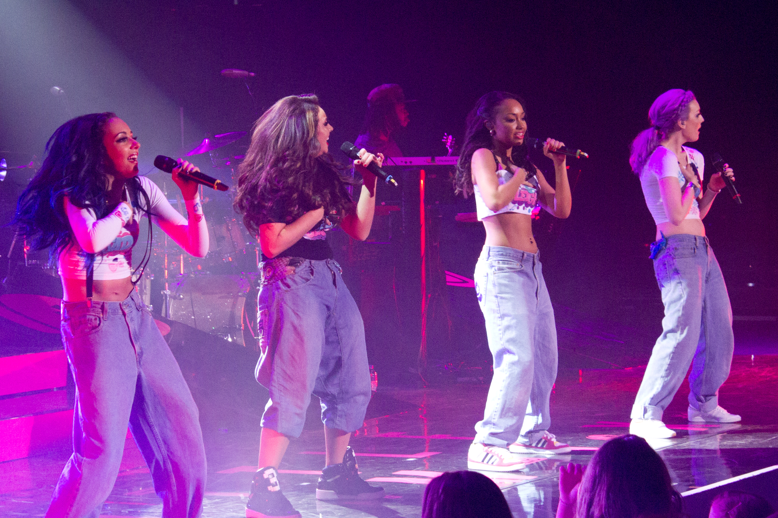 Little Mix